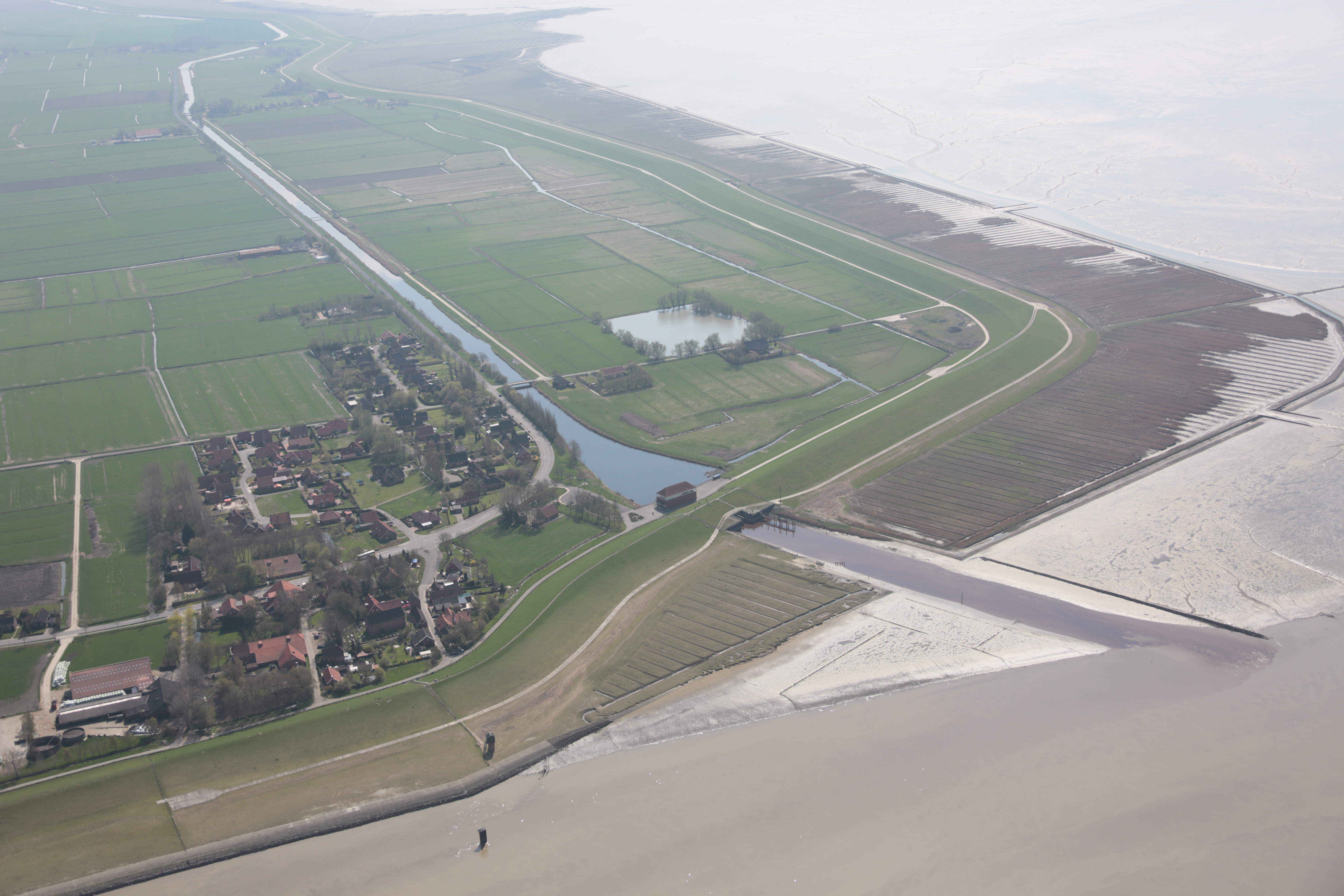 Fotoflug von Nordholz-Spieka nach Oldenburg und Papenburg This photo was taken by Alchemist-hp. If you use one of my photos, an email (account needed) or a message or direct to: my email account would be greatly appreciated. Please note the license terms. Other licensing terms can get discussed, too. This file is copyrighted and has been released under a license which is incompatible with Facebook's licensing terms. It is not permitted to upload this file to Facebook.